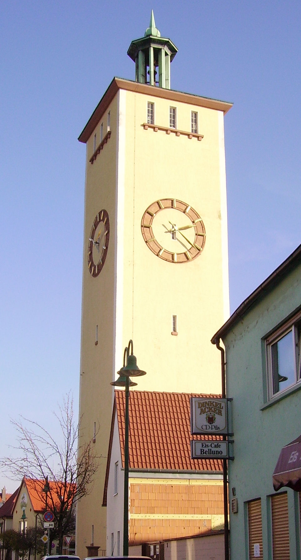 Description: Altrip, Germany) Source: own photography Date: November 2005 Author: --Immanuel Giel 11:05, 17 November 2005 (UTC) Other versions: none Altrip